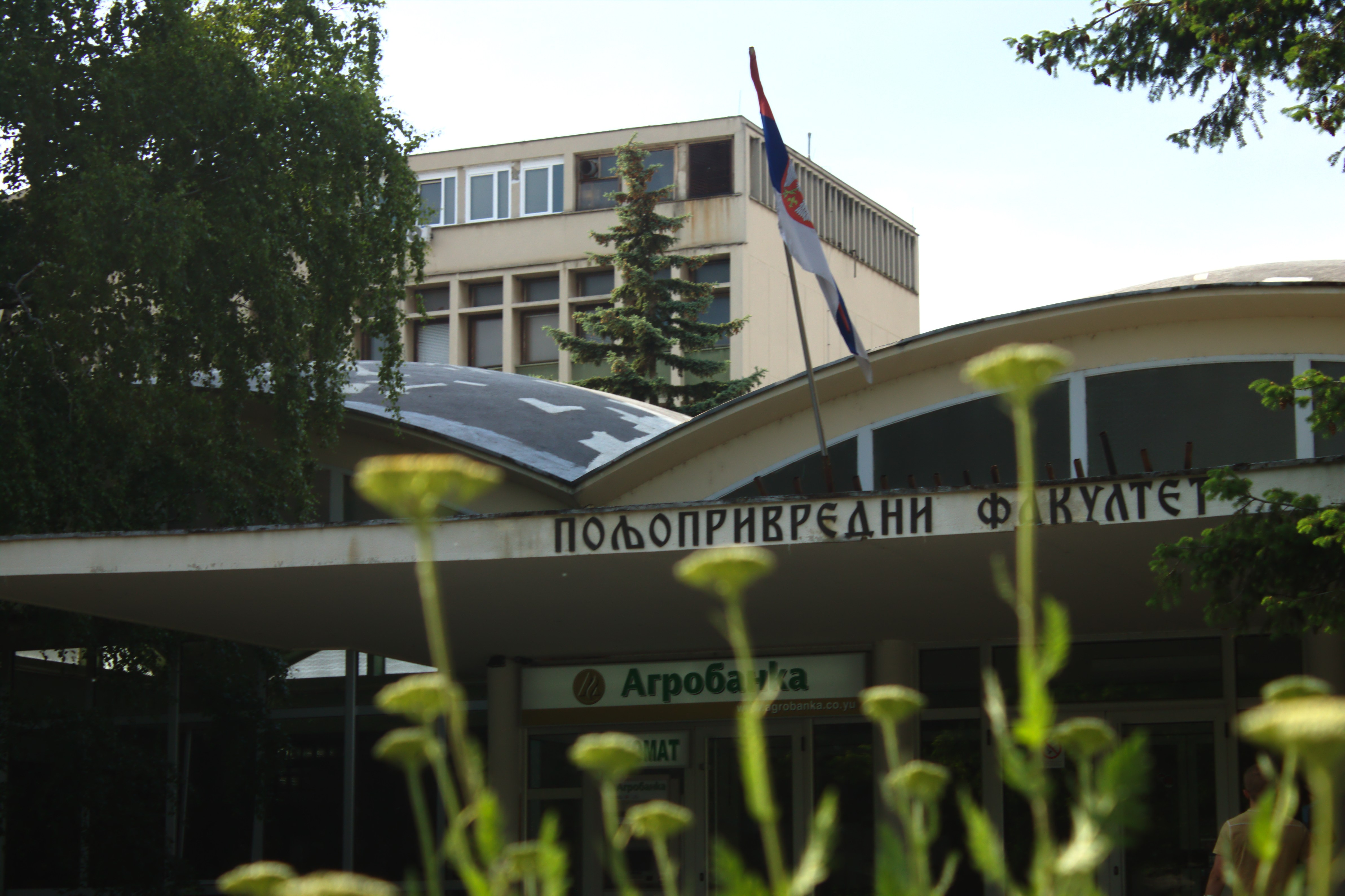 Building of the agricultural faculty of the University of Novi Sad at Liman, Novi Sad, Serbia